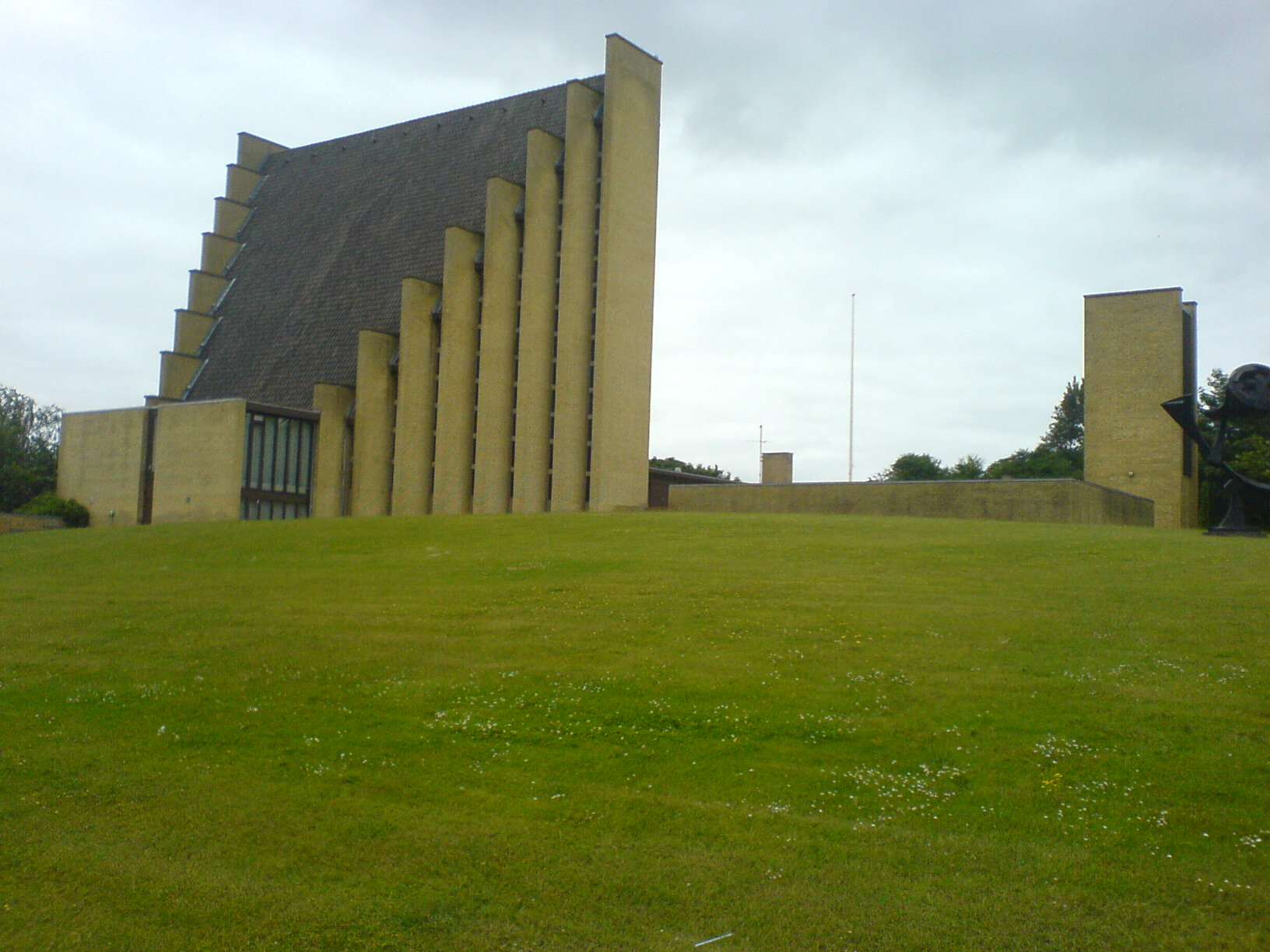 Nyvangs Church, Nyvangs parish, Ars Herred, Holbæk County, Denmark.